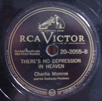 A record of Charlie Monroe's There's No Depression In Heaven, with his Kentucky Boys; issued on RCA Victor